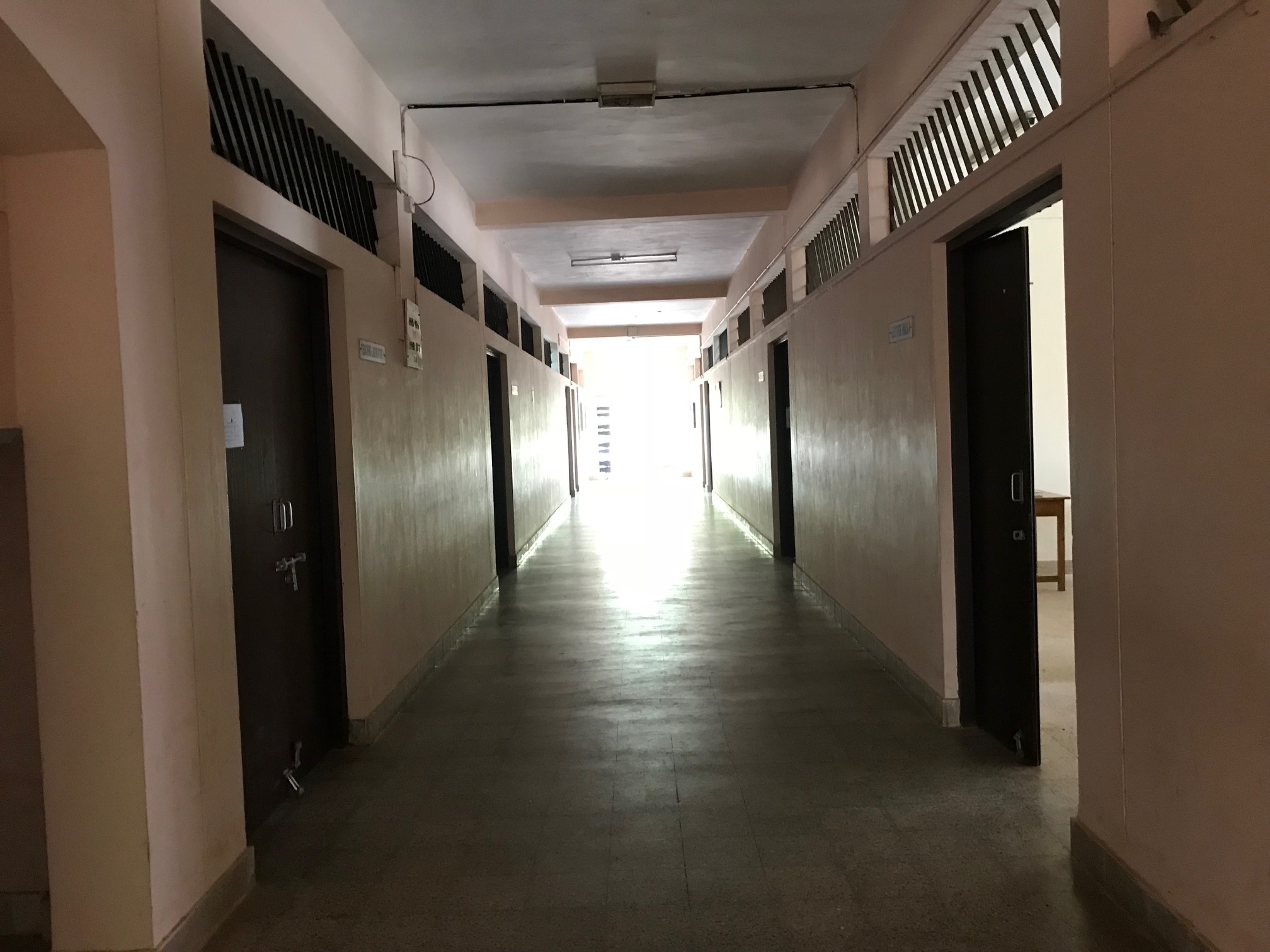 schoooloflifesciencescorridor